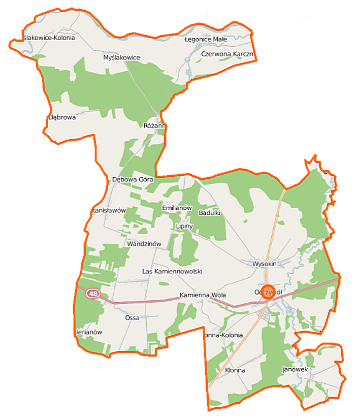 Map of Gmina Odrzywół, Poland This map of Odrzywół (gmina) was created from OpenStreetMap project data, collected by the community. This map may be incomplete, and may contain errors. Don't rely solely on it for navigation. Border coordinates51.619920.4102←↕→20.602151.4790